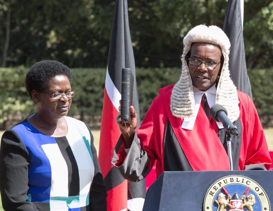 Chief Justice David Maraga taking oath of office